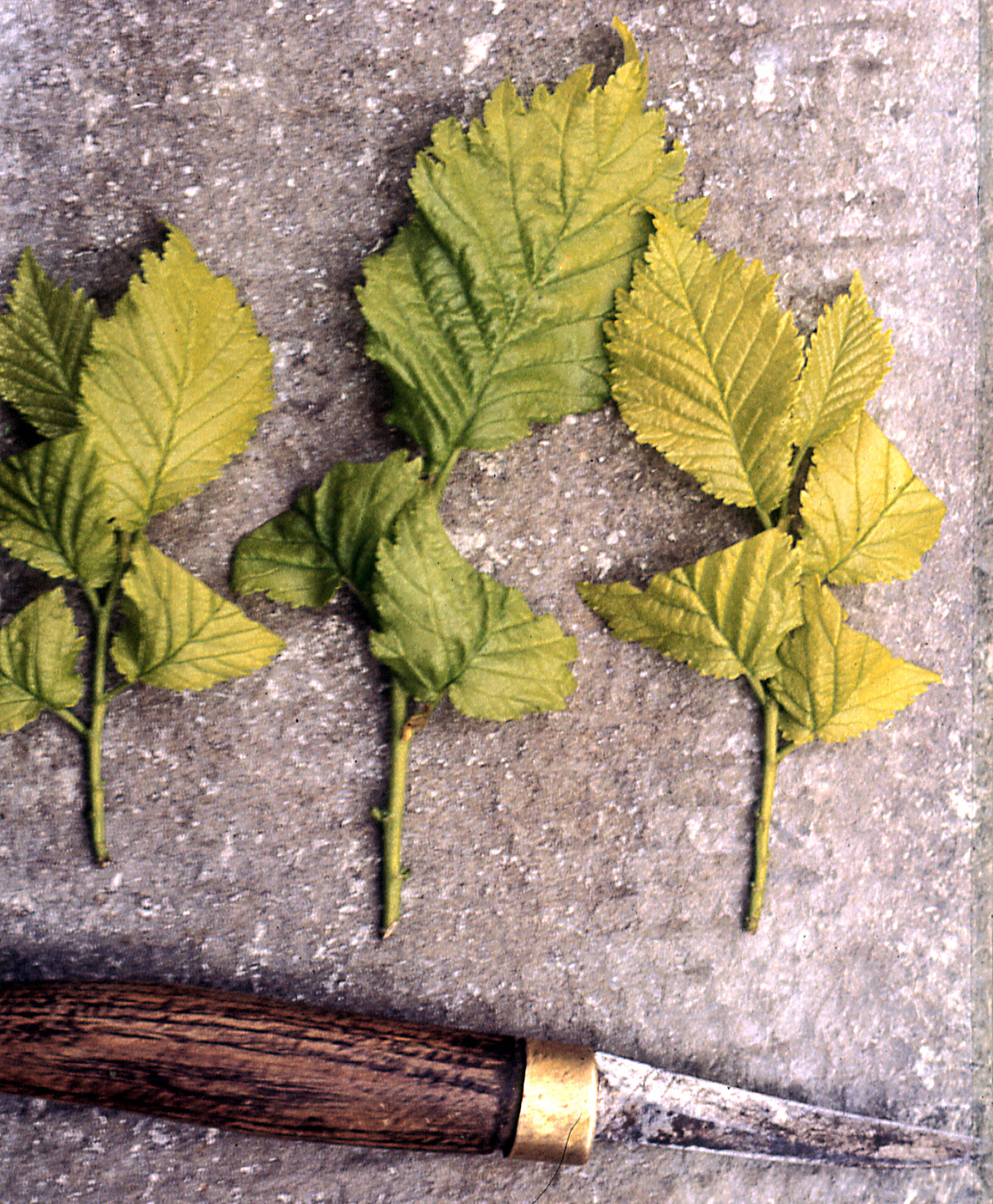 Ulmus x hollandica 'Wredei' green cuttings